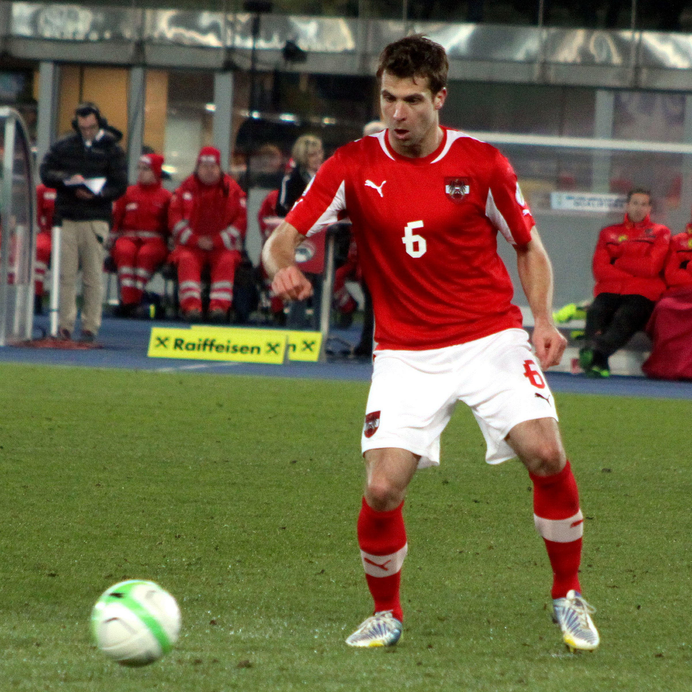 2014 FIFA World Cup qualification (UEFA), Group C: Austria national football team vs. Faroe Islands national football team 6:0 in the Ernst-Happel-Stadion in Vienna at 2013-03-22. – The photo shows Andreas Ivanschitz (Austria).